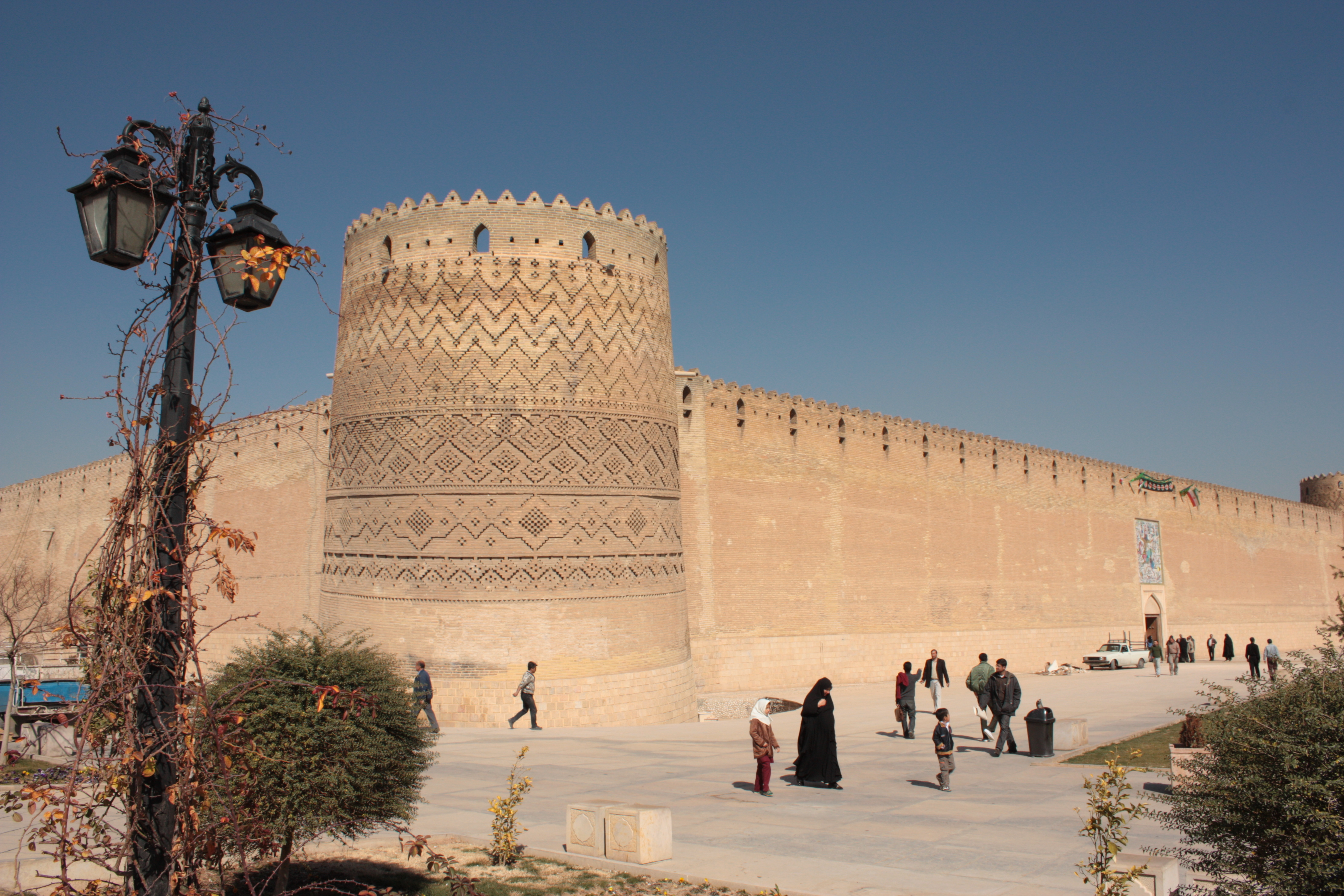 Arg of Karim Khan in Shiraz